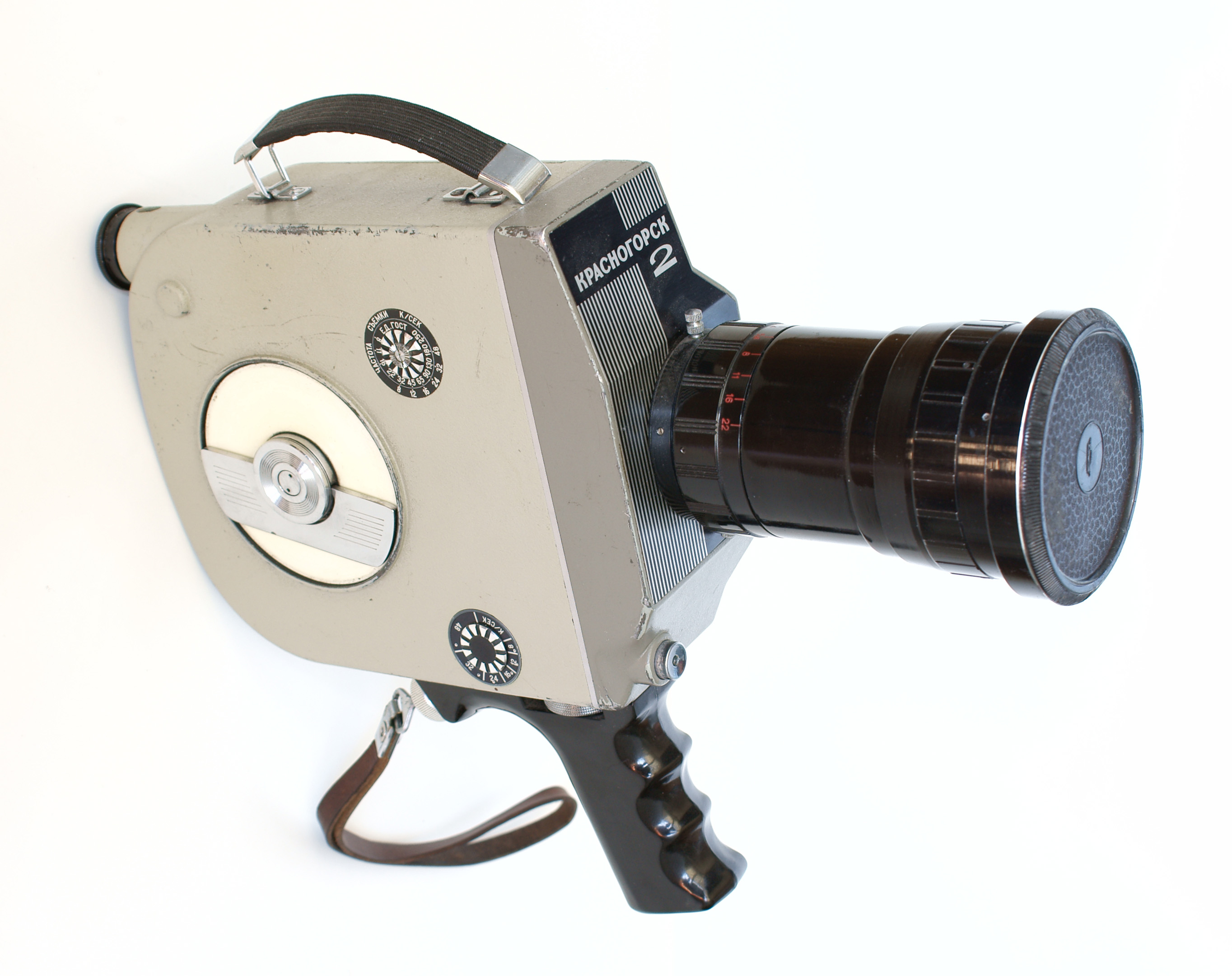 Soviet 16 mm movie camera Krasnogorsk-2.